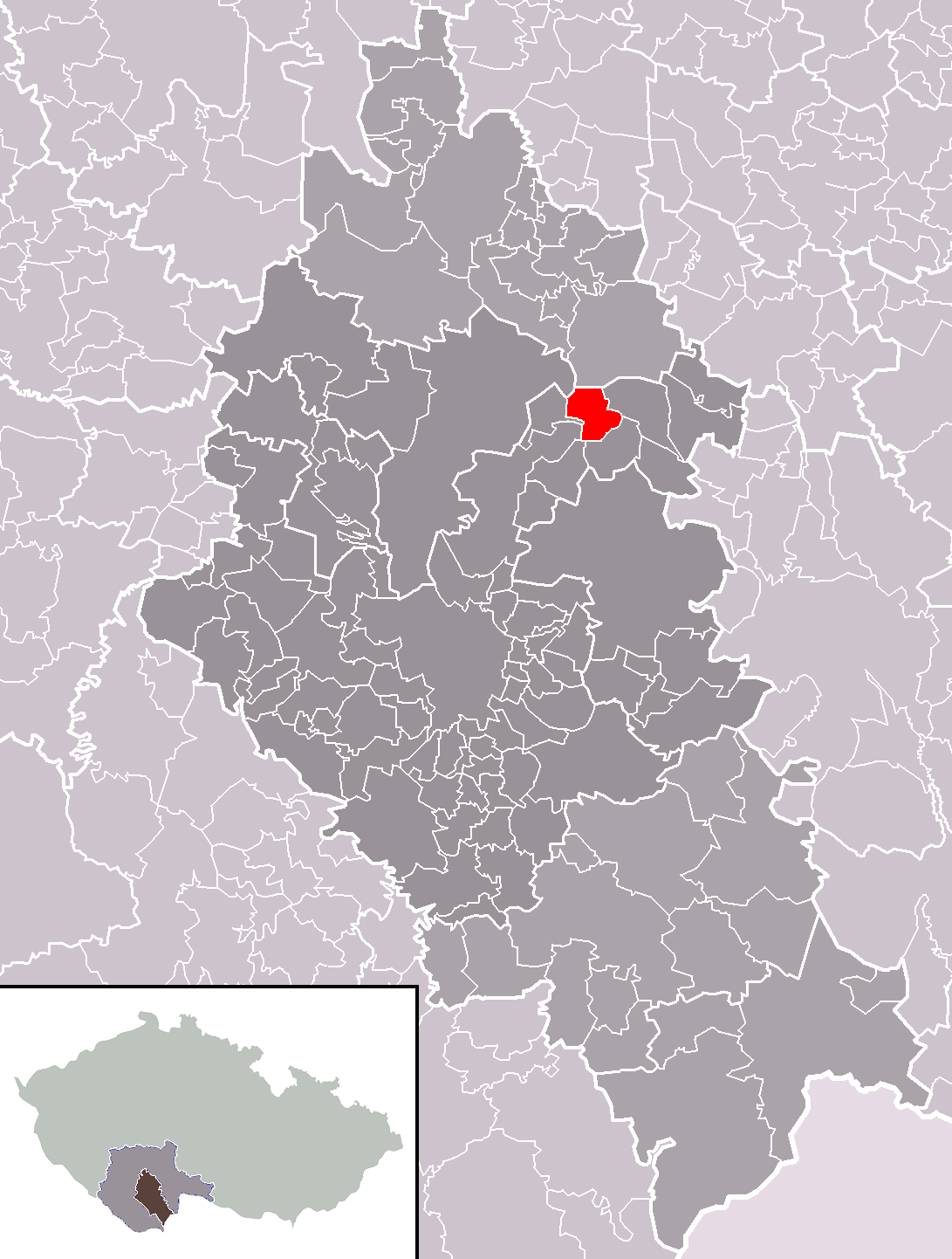 Location of Drahotěšice municipality within České Budějovice District and administrative area of České Budějovice as a Municipality with Extended Competence.